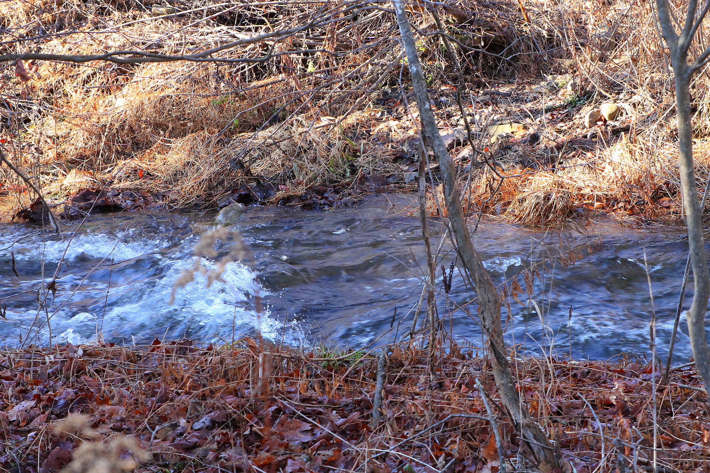 Rapids on Phillips Creek